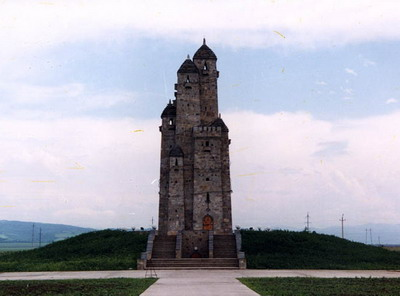 Memorial for the memory of victims of political oppressions (located in Nazran, Ingushetia, Russian Federation)